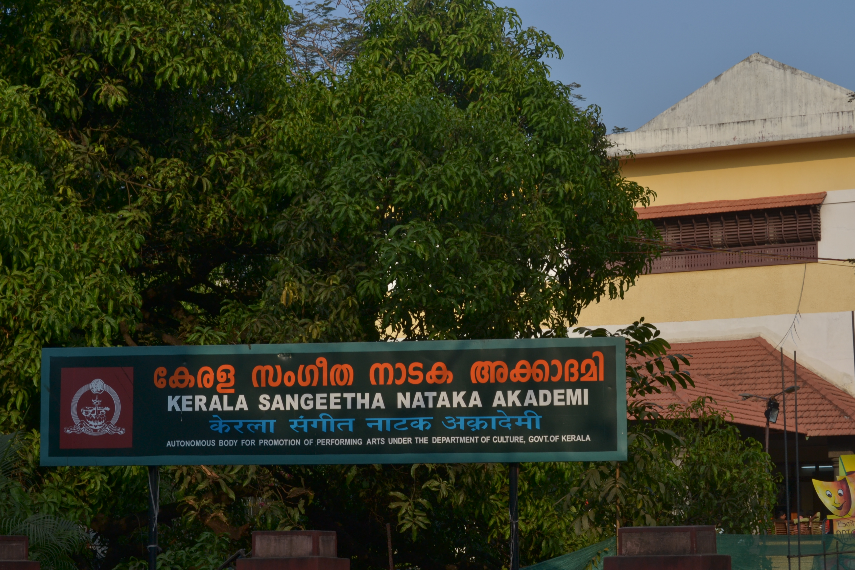 sangeetha nataka academy, thrissur